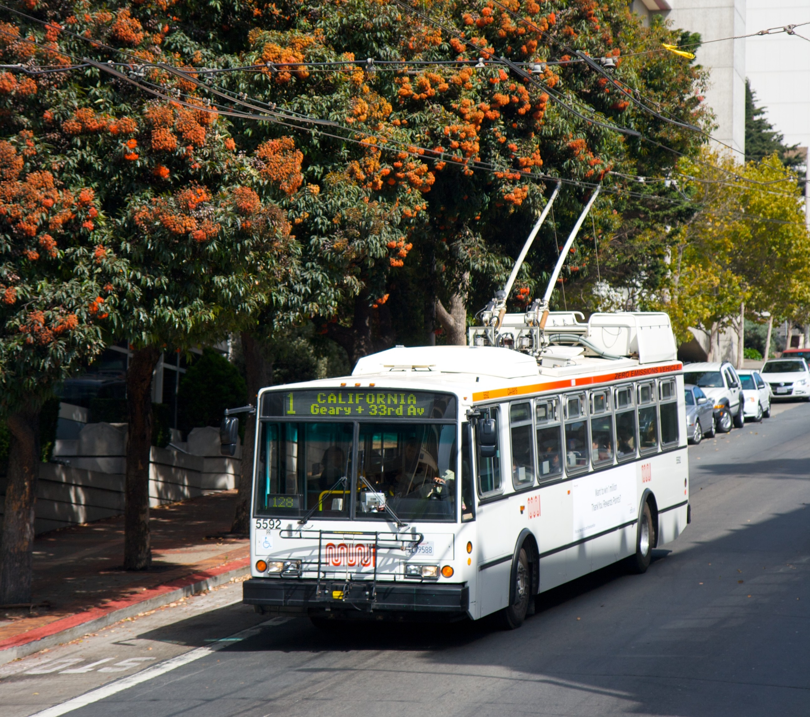 An ETI 14TrSF trolleybus of Muni, descending a steep hill on line 1. This model, the SF version of the 14Tr design, was only built for San Francisco.